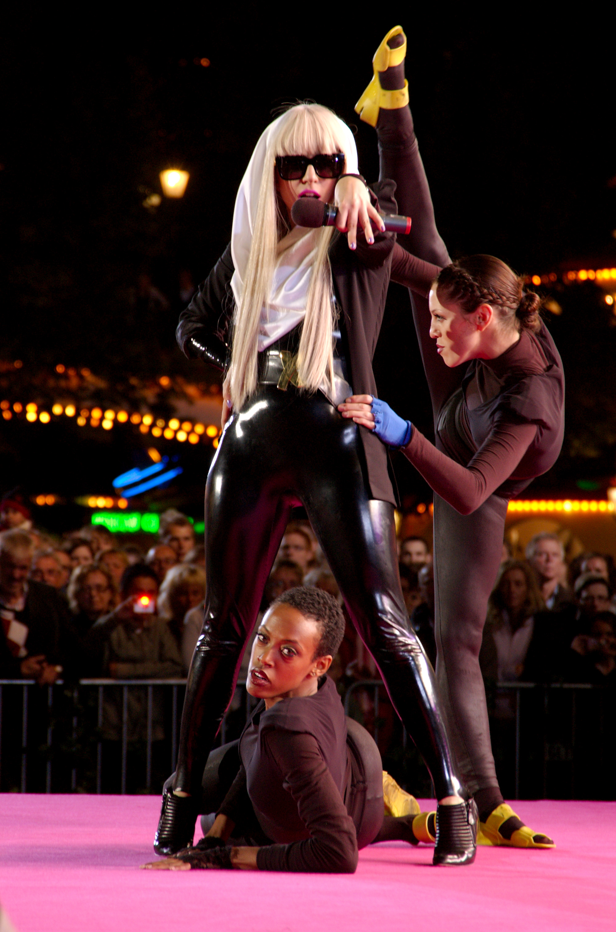 Lady Gaga performing at Gröna Lund, Stockholm, 2008